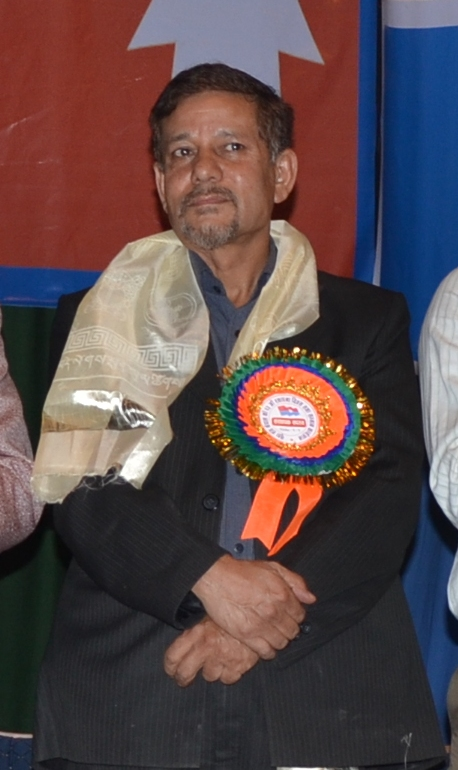 Keshab Sthapit in UML program